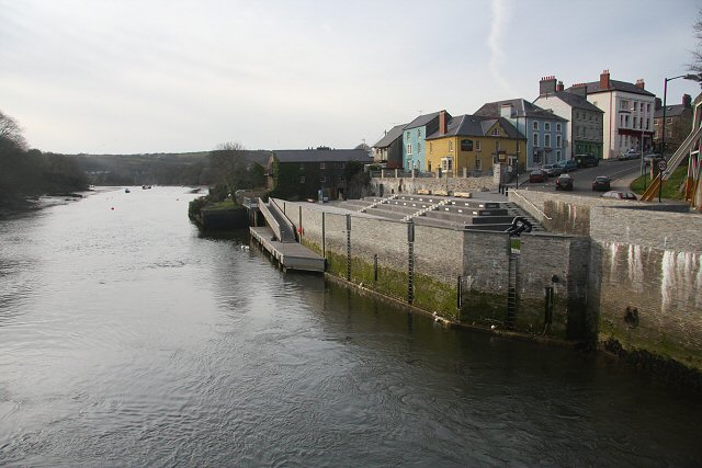 Prince Charles Quay, Cardigan Formerly known as Lloyds Wharf, this quay has been re-built with the aid of Objective 1 funding. It was formally opened in July 2007. The aim is to re-open a port that has suffered a hundred years of decline and neglect; 200 years ago many people left from this quay for a new life in America.